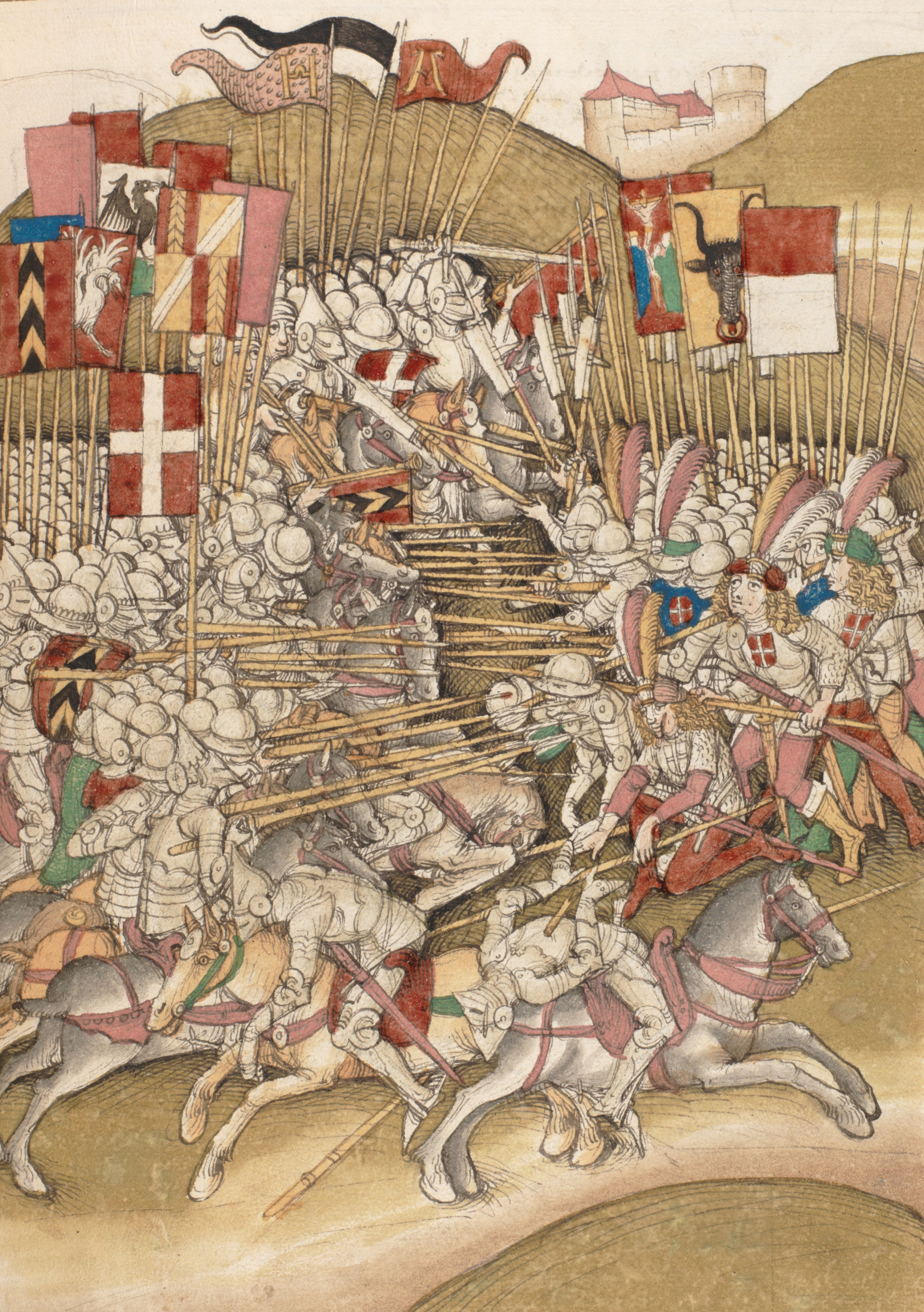 Illustration of the Battle of Laupen (1339) between Swiss forces and an army of the Dukes of Savoy. It still shows the old german red flag with a white cross upon it. The confederate forces are on the right. The Bernese victory at the Battle of Laupen helped bring Bern into the Swiss Confederation.